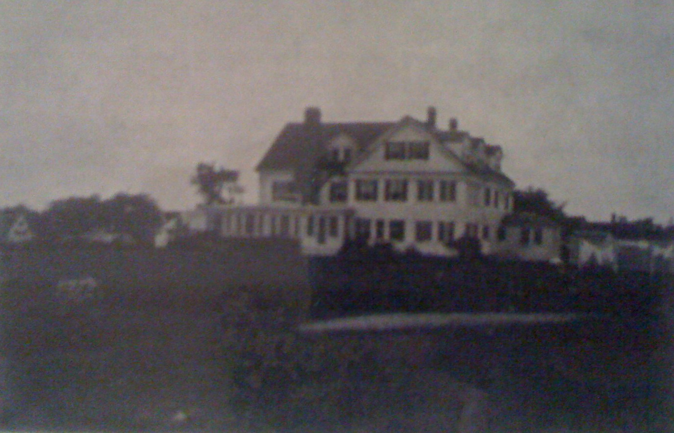 October 1922 photo of cape cod hospital, photo is out of copyright now. This is a photo of the original photo.